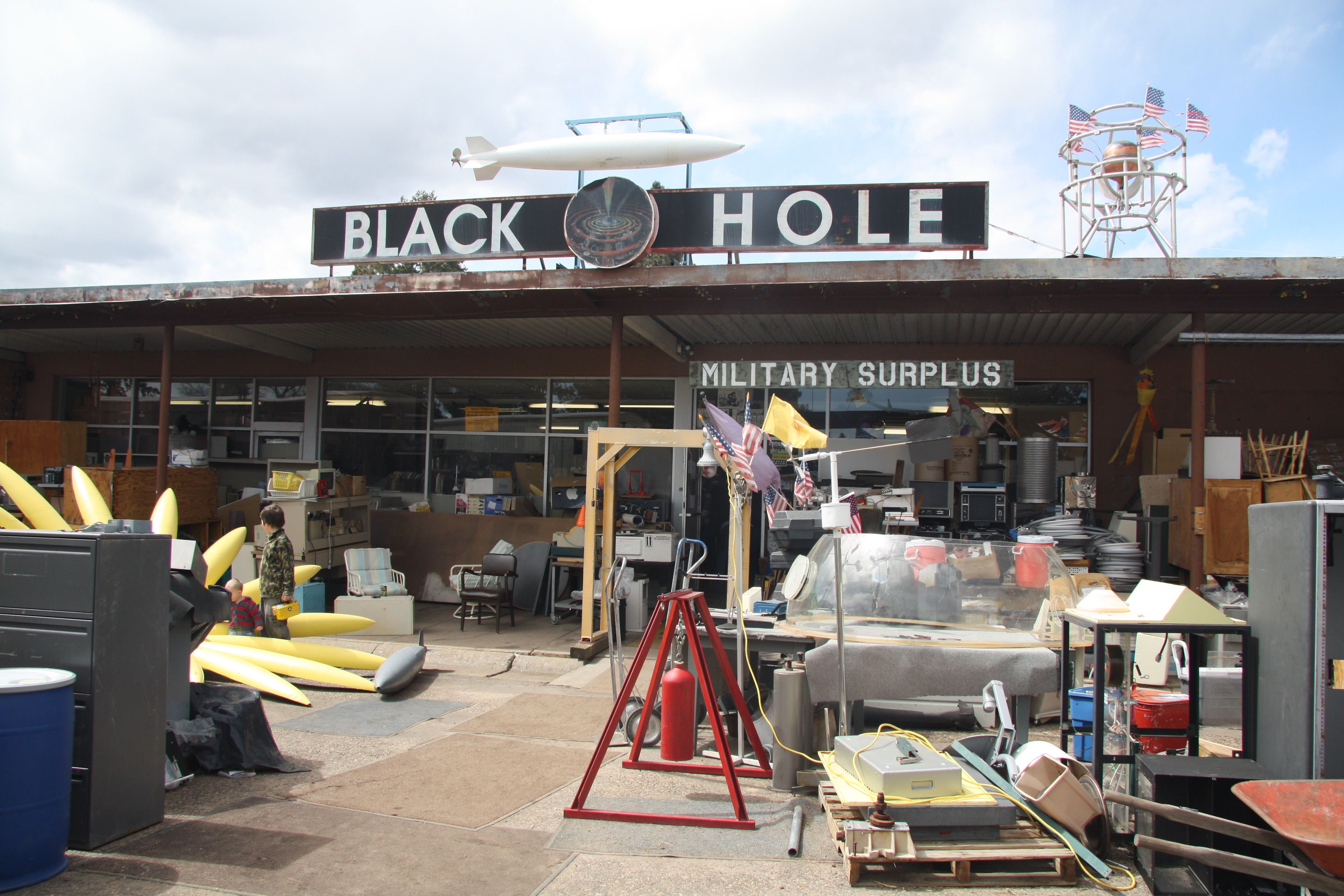 The Black Hole: Atomic Surplus Store, Los Alamos, New Mexico, Spring 2009